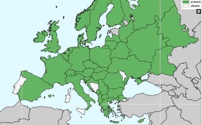 Rasprostranjenje vrste u Evropi (Fauna Europaea)